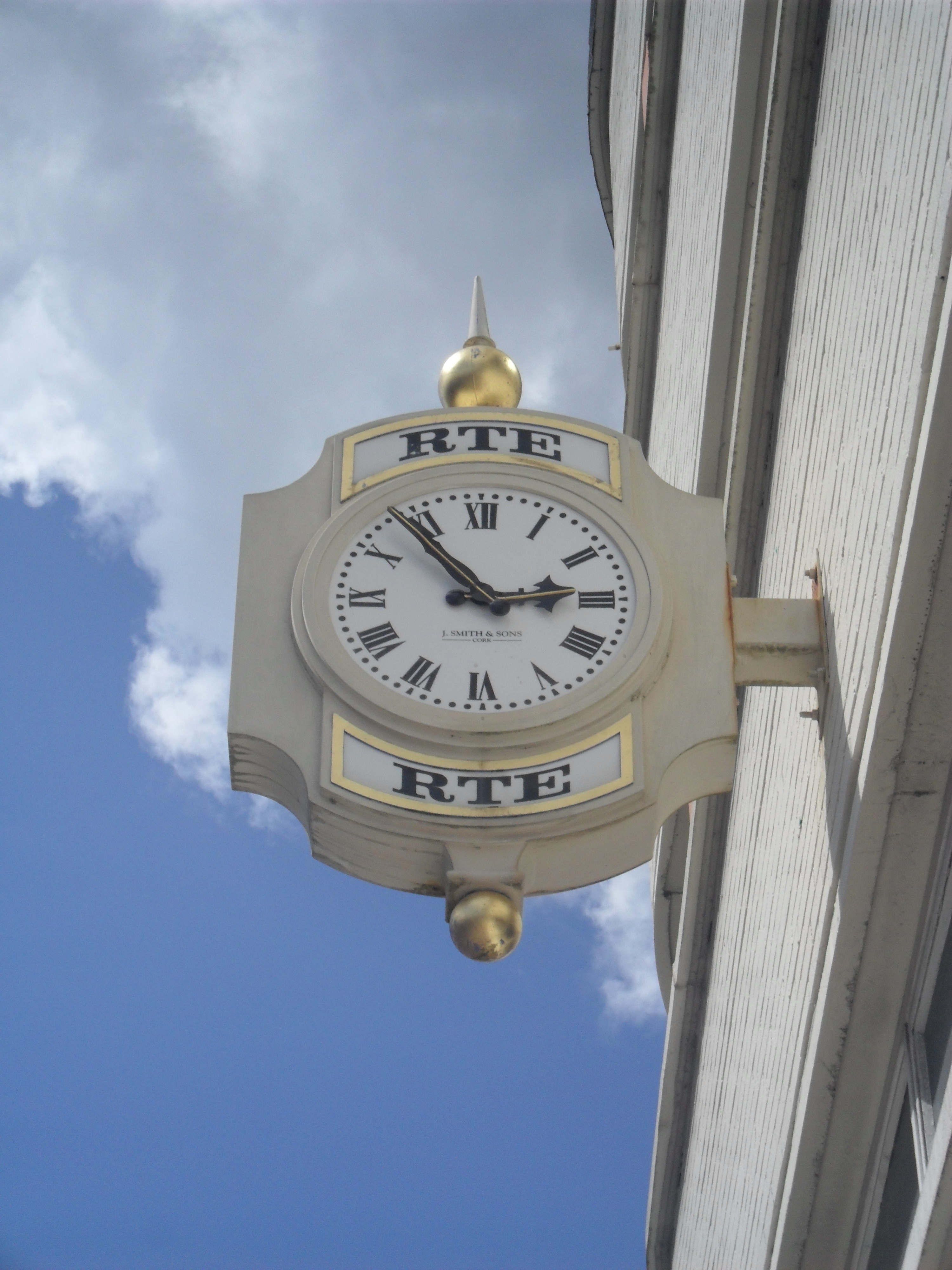 RTÉ clock